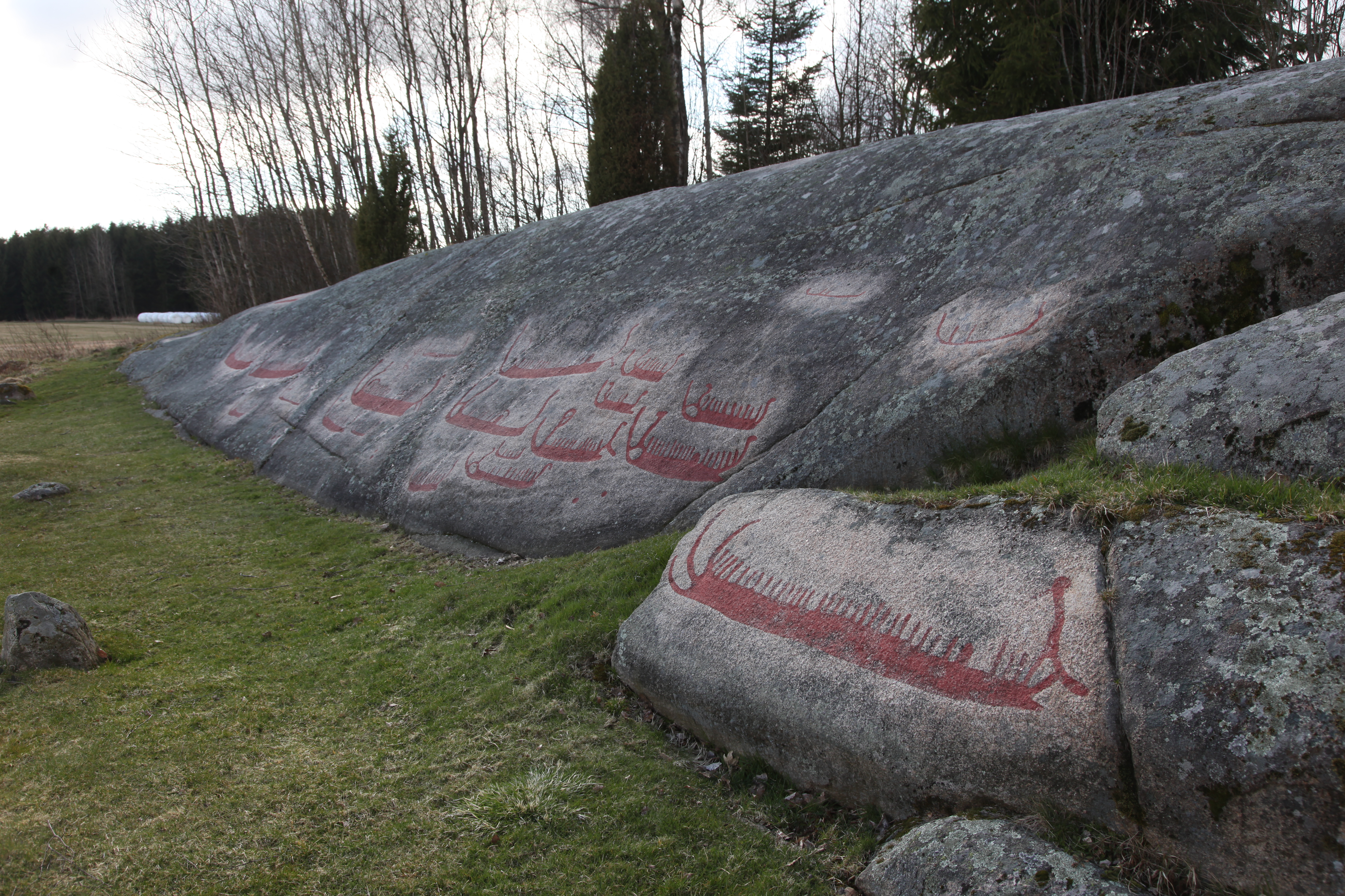 Rock carvings from the Hornes field in Østfold, Norway